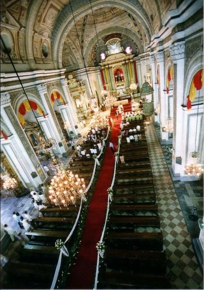 San Agustin Church, Manila, Philippines